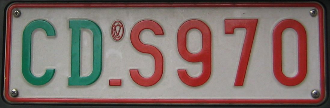 Belgian vehicle registration plate for embassy staff